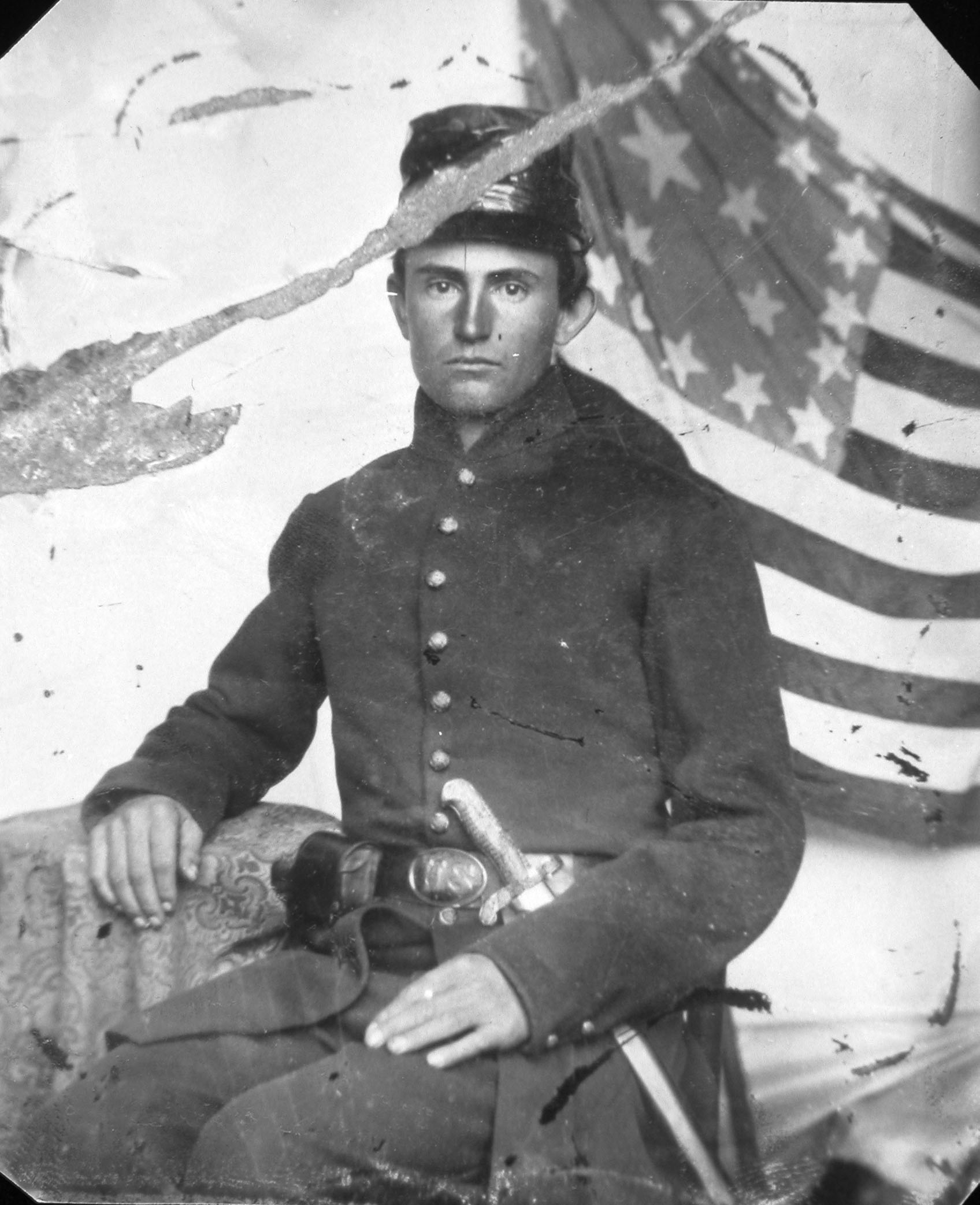 Private Samuel K. Wilson (1841-1865) of the Sturgis Rifles, Illinois Volunteer Infantry. Photograph taken in 1862. Photograph of an old photograph taken by Mark A. Wilson (Department of Geology, The College of Wooster). The original photograph is owned by the same Mark A. Wilson.